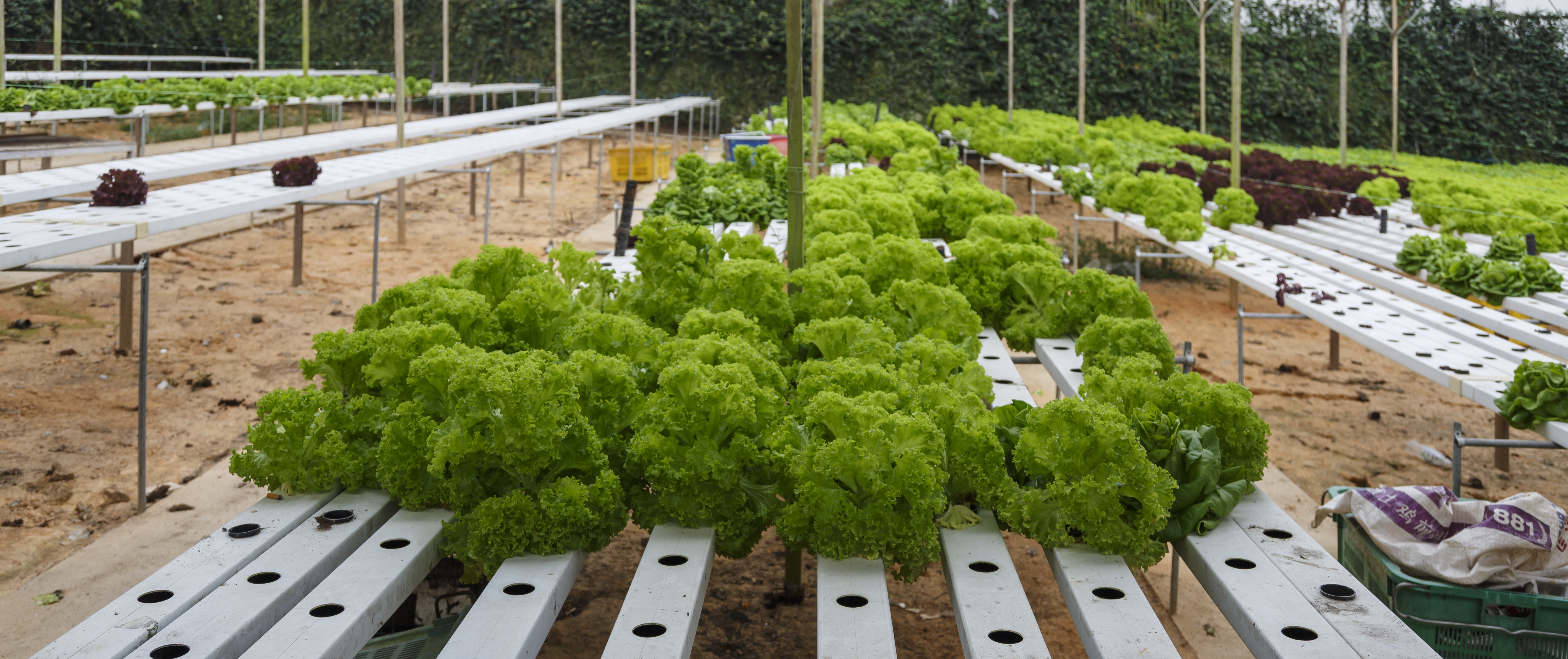 Genting Highlands, Malaysia: "Mini Cameron - Fruits and Flowers Store", a greenhouse company at the slopes of Genting highlands